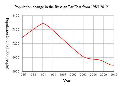 Graph translated from the Russian Wikipedia page for the Russian Far East